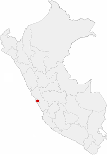 Location of the city of Lima in Peru Created by Tuomas Carrasco - Feb. 2005